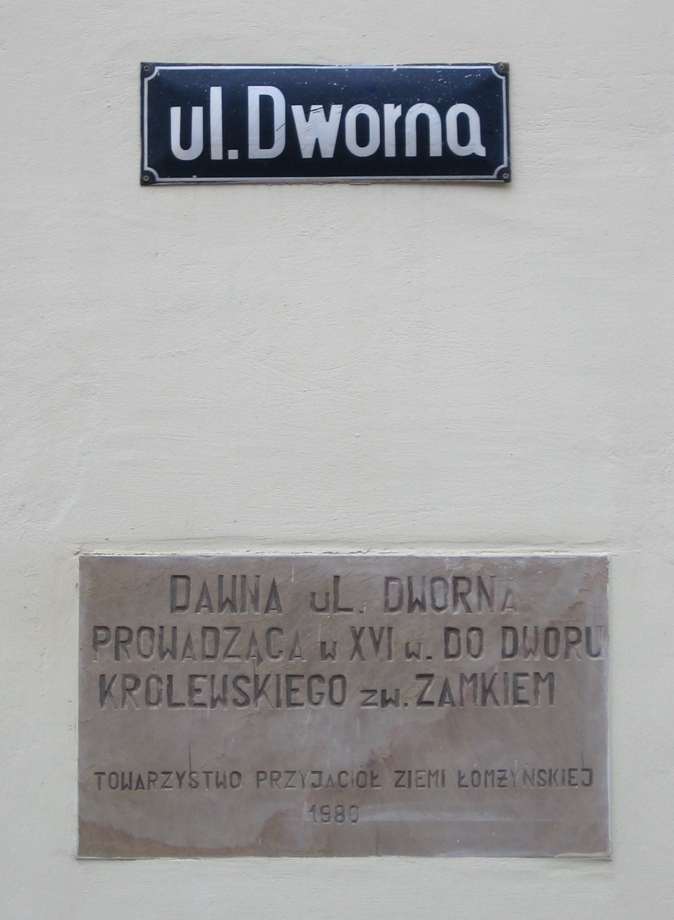 Dworna Street in Łomża